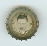 Joe Isbell, American football player for the Dallas Cowboys, on the inside of a Coca-Cola bottle cap from 1966.